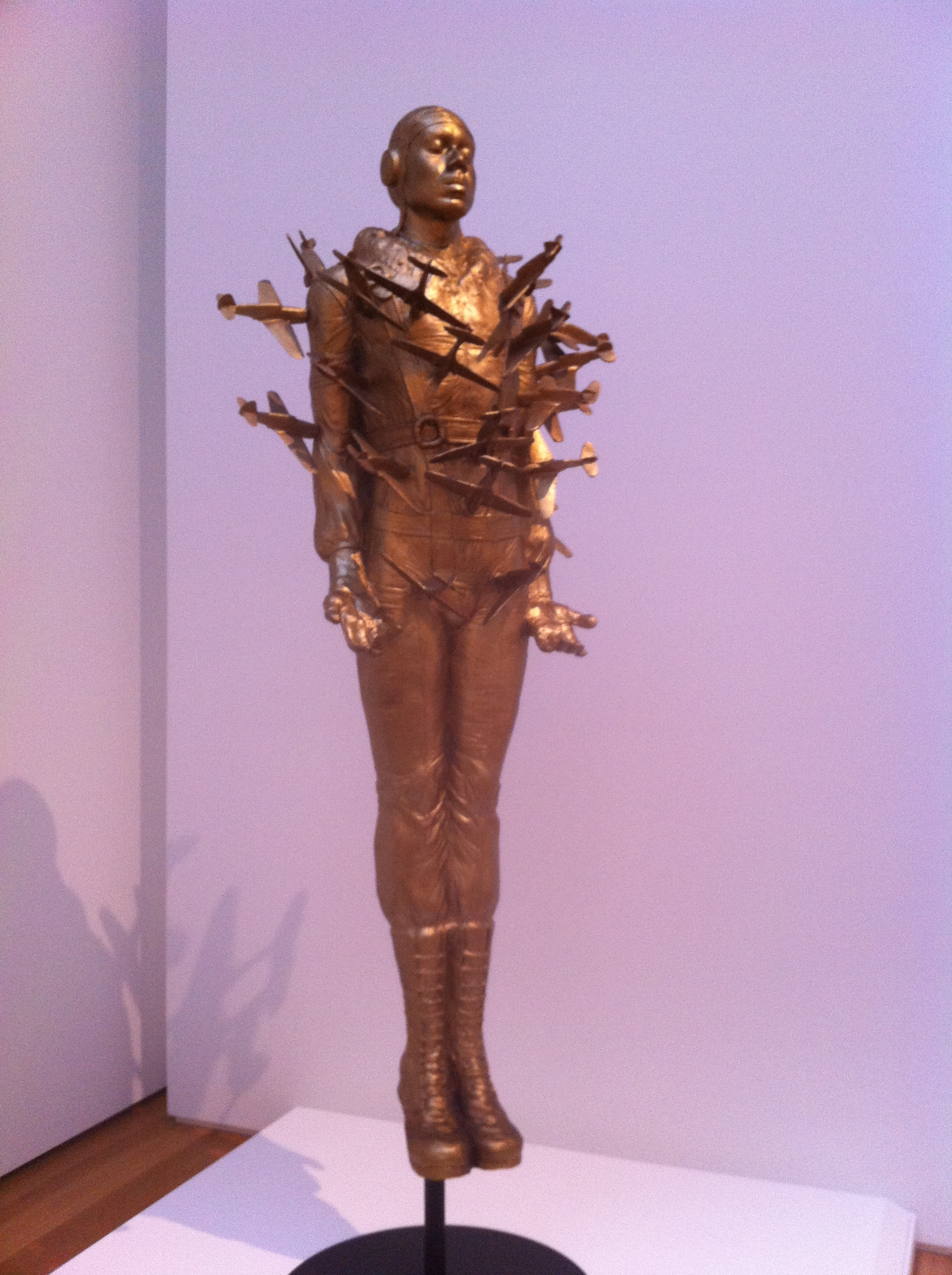 "Tar Baby vs. St. Sebastian" — by sculptor Michael Richards. The sculpture represents the contribution of African American pilots during World War II, who were going unrecognized until recently. Materials: Body cast in resin and fiberglass, painted and supported by steel shaft, with airplanes cast in resin and fiberglass, painted and attached by steel bolts. Collection of the North Carolina Museum of Art.